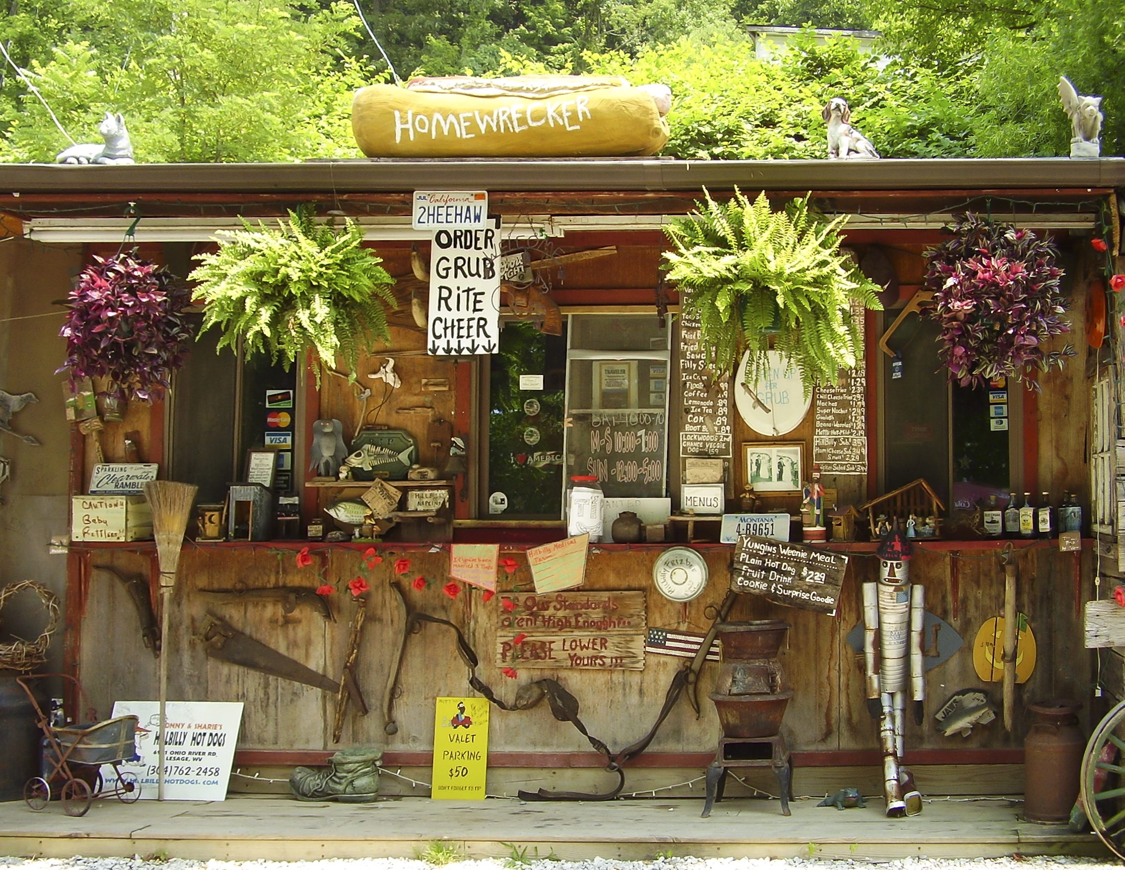 Self-made photo of Hillbilly Hot Dogs, a roadside hot dog stand located on West Virginia State Route 2 north of Huntington, West Virginia. The photo was taken on 8 July 2006.